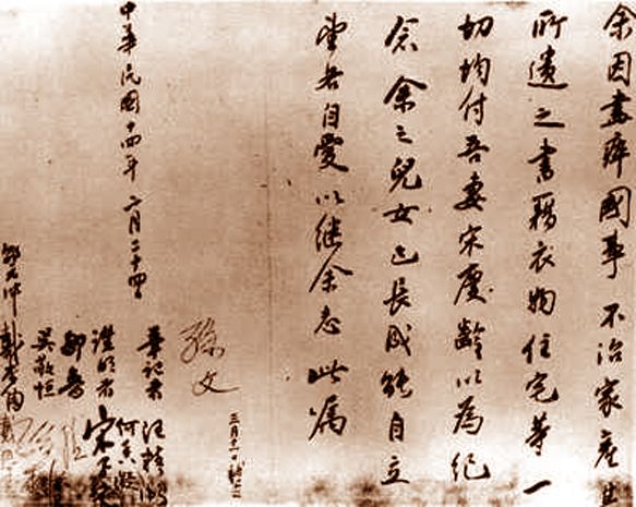 Sun Yat-sen's will